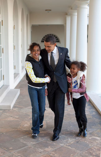 President Barack Obama walks down the Colonnade with his arms around daughters Malia and Sasha, right 3/5/09.